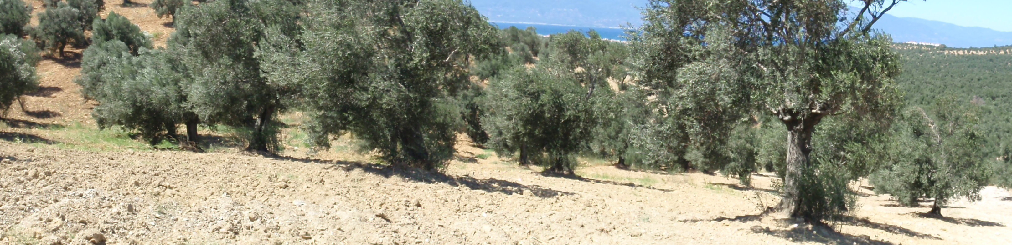 olive trees in pelitköy, turkey